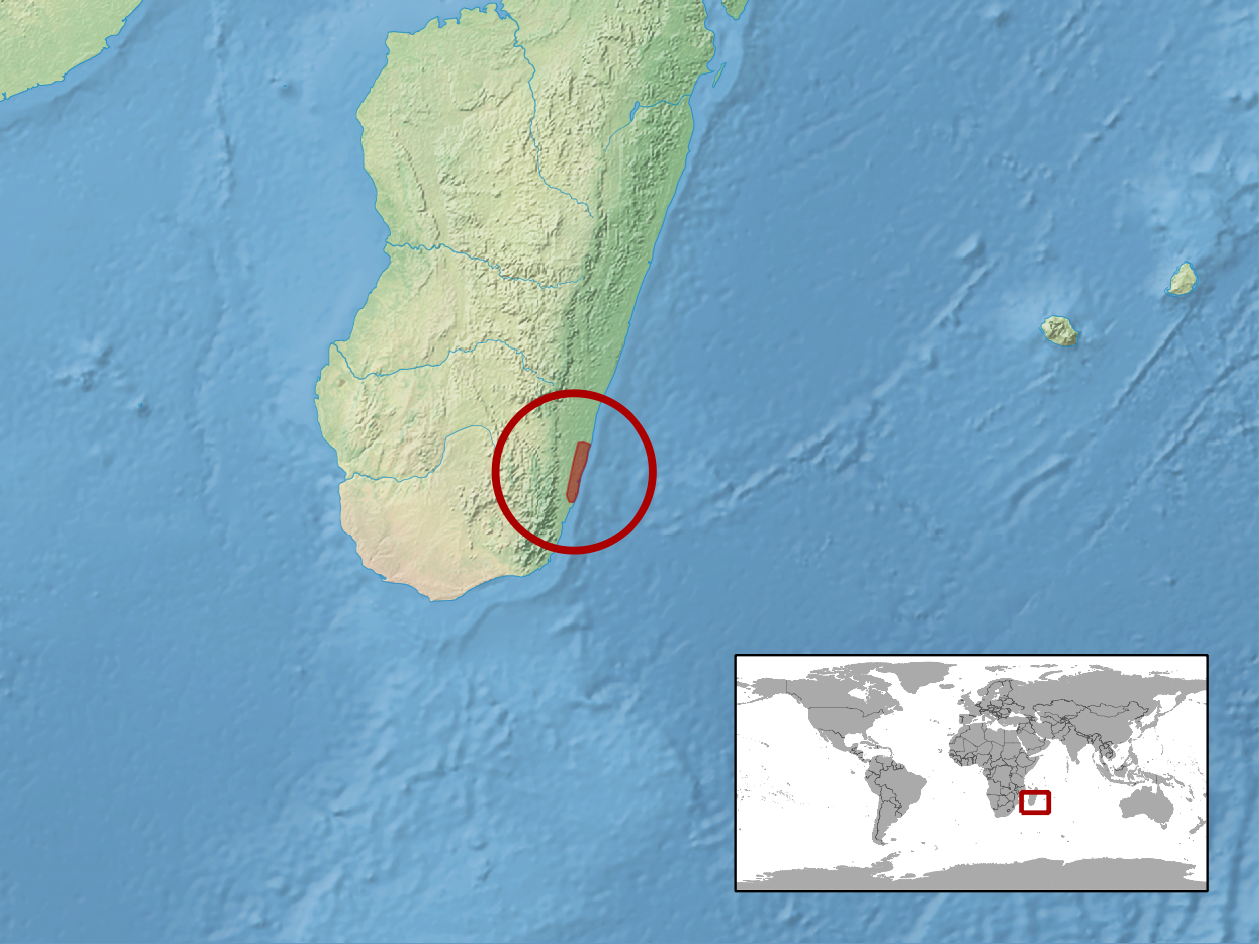 geographic distribution of Phelsuma berghofi (Native: Madagascar)